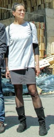 four people of Zagreb is OURS! from 2017 campaign (Mima, Danijela, Tomislav & Ursa) for Culture and Herritage of Industrial Architecture in Zagreb CROATIA